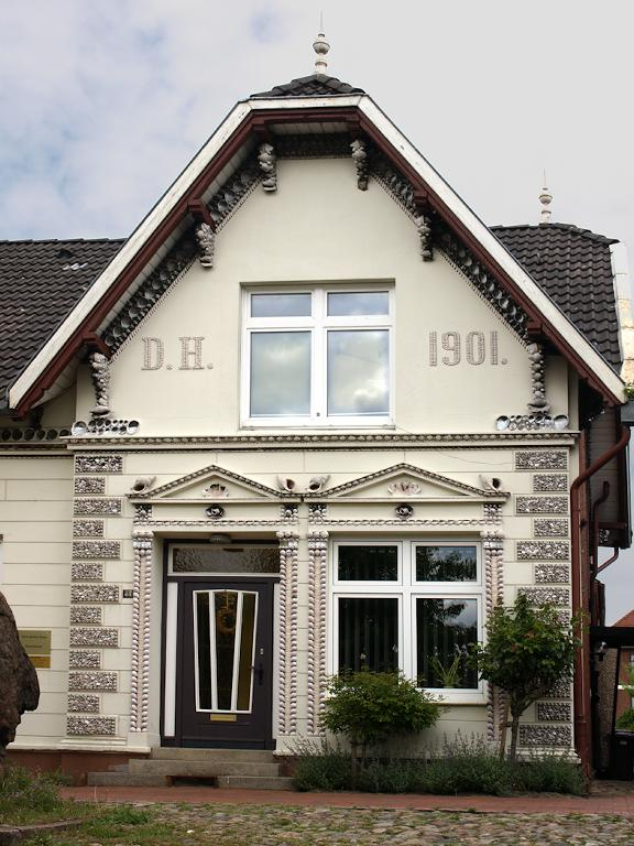 Hohenweststedt (Schleswig-Holstein, Germany), house of sea shells, photo 2009